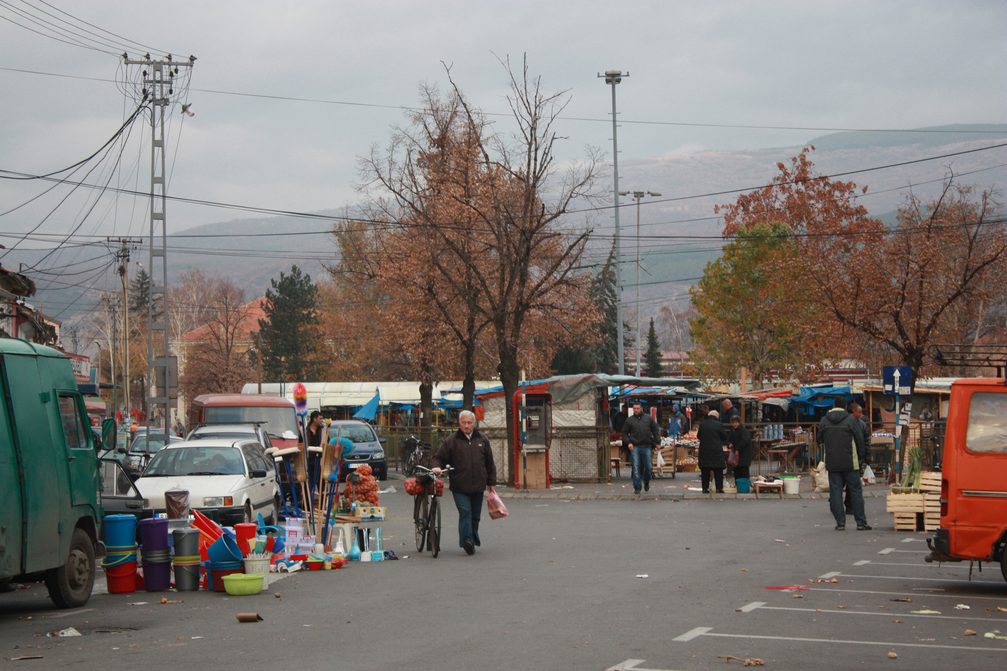 Marketplace in Pirot, Serbia